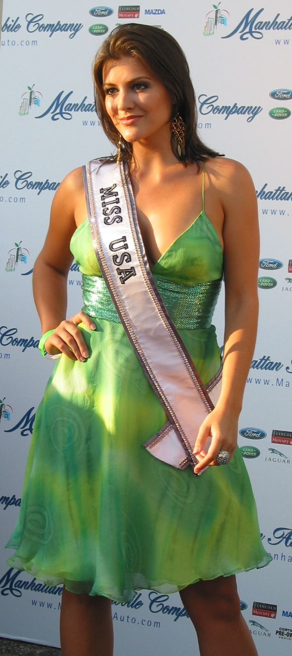 Chelsea Cooley, Miss USA 2005, at the "US Open Star Serena Williams and Top Seed Bob Bryan and Mike Bryan Serve it Up on a Rooftop Tennis Court at Manhattan Land Rover" event.